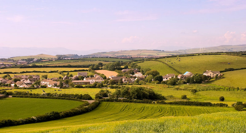 The village of Newton near Barrow-in-Furness, Cumbria, England.